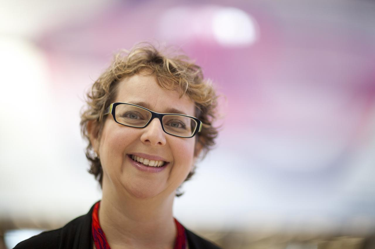 Echelman: every beating second